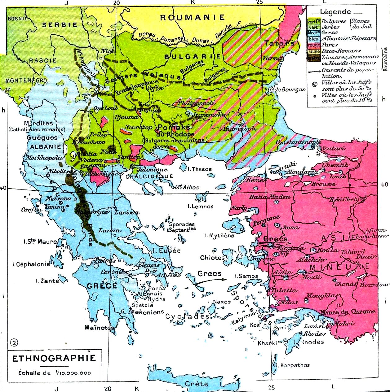 Ethnic map of the Balkans. Note: Henry Robert Wilkinson published in 1951 the work Maps and politics: a review of the ethnographic cartography of Macedonia where he stated that thus map represented the most widespread view of that time.[1]